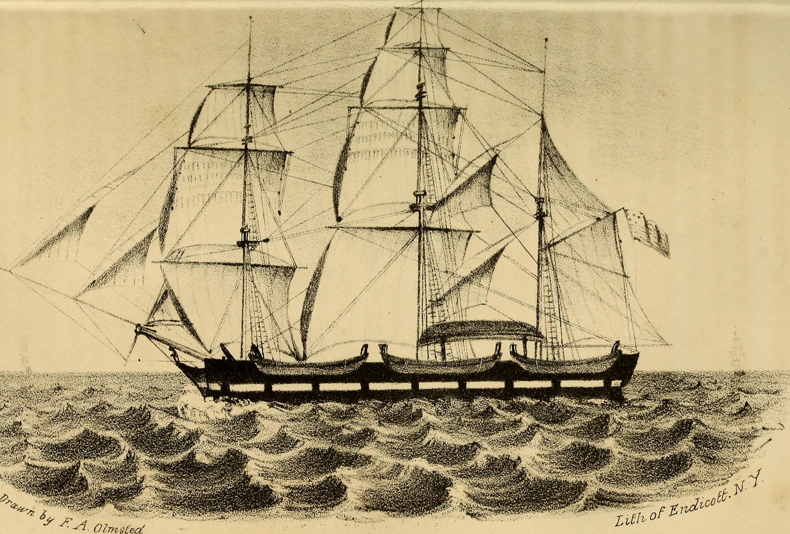 Title: Incidents of a whaling voyage : to which are added observations on the scenery manners and customs, and missionary stations of the Sandwich and Society Islands : accompanied by numerous lithographic plates Year: 1841 (1840s) Authors: Olmsted, Francis Allyn, 1819-1844 Subjects: Whaling Publisher: New-York : Published by D. Appleton and Co. Text Appearing Before Image: 'North America was built by Stephen Girard Esq. and was originally intended for a letter of marque during the last great war with Great Britain. The war terminating before she was completed. She was applied to the merchant service and sent to the East Indies. About eight years (circa 1831) since she was purchased by her present owners and converted into a whaler. She is an exceedingly strong vessel with timbers of great size ... Text Appearing After Image: IMAGE: North America bargue built by Stephen Girard (circa 1816). 386 tons. Whaler. SHIP NORTH AMERICA. 43 North America (ship, 1816) Page VI: journal of a voyage in our ship North america in 1839 and '40. Page 12 North America is a temperance ship.